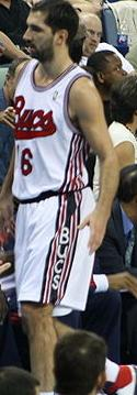 Pedrag Stojakovic